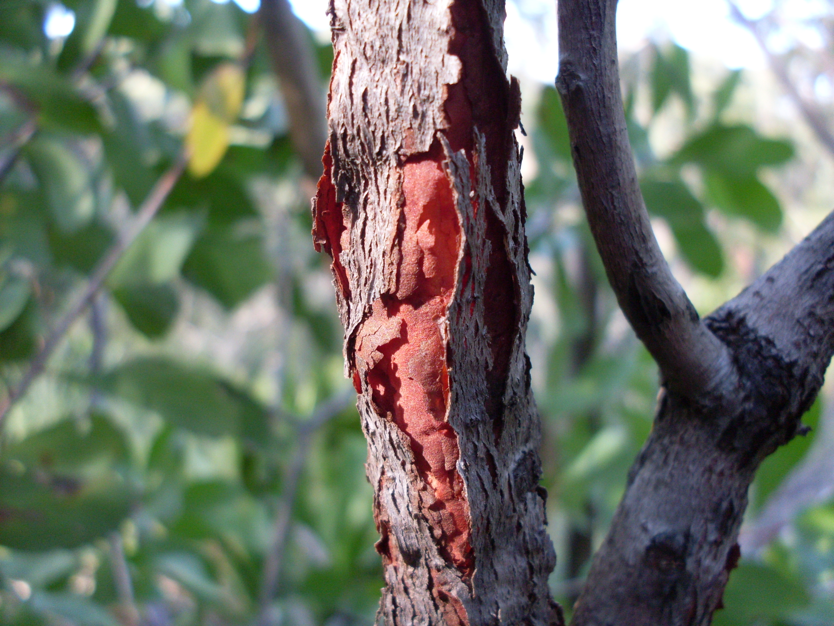 Scratch away the flaking bark of a smooth Geebung (Persoonia levis), and this bright red colour appears. Heathcote National Park, NSW Australia, April 2009.